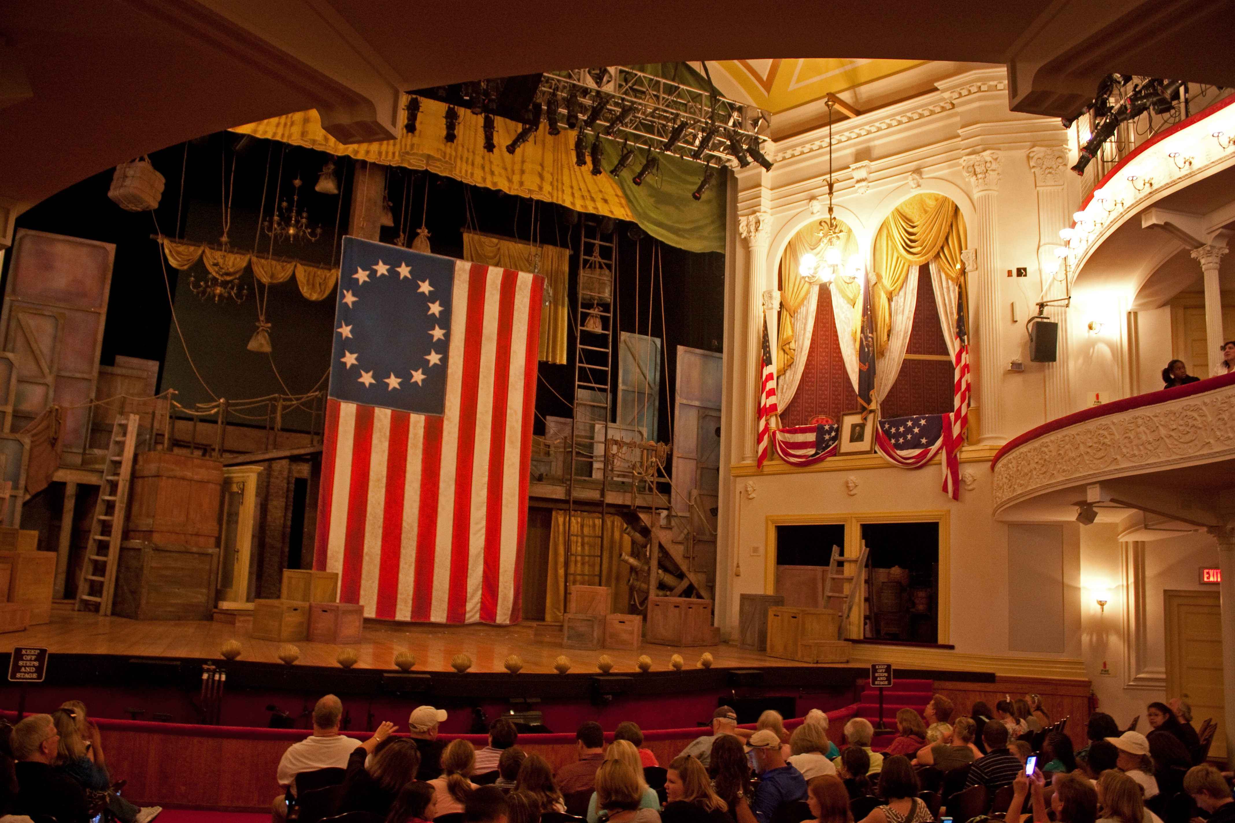 Interior of Ford's Theatre, Washington, D.C., where Abraham Lincoln was assassinated. The presidential box is towards the right. The theatre is still in operation and the stage is set up for a current stage play. The set onstage is for Liberty Smith and was designed by Court Watson. (i.e., it is not set up as it was when Lincoln was shot).